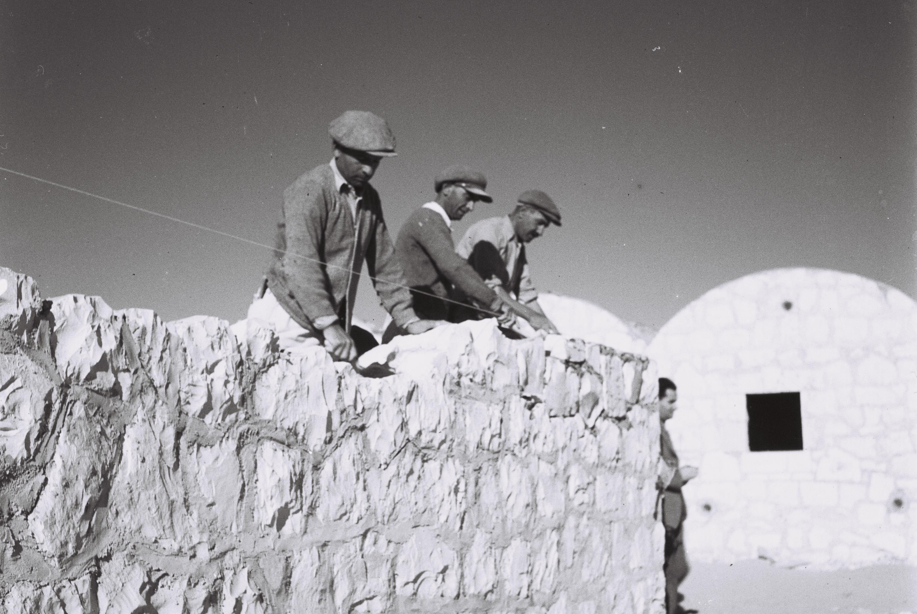 BUILDING WORKERS CONSTRUCTING A STONE WALL AT KIBBUTZ BEIT ESHEL. בניית חומה מבוצרת סביב קיבוץ בית אשל בנגב.